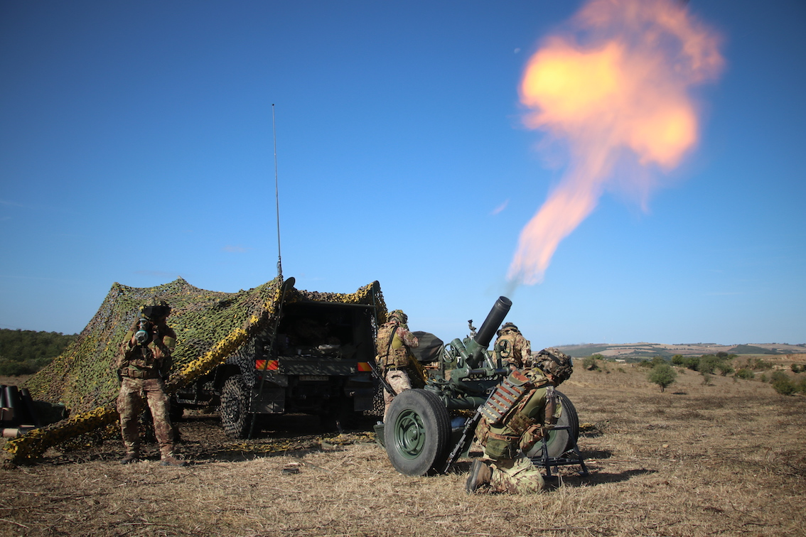 Italian Army - 3° Alpini Regiment mortar platoon during an exercise at the Monteromano training range, September 2019